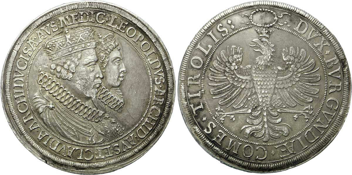 Double thaler à l"effigie de Léopold V et de Claude de Médicis, (1619-1636)